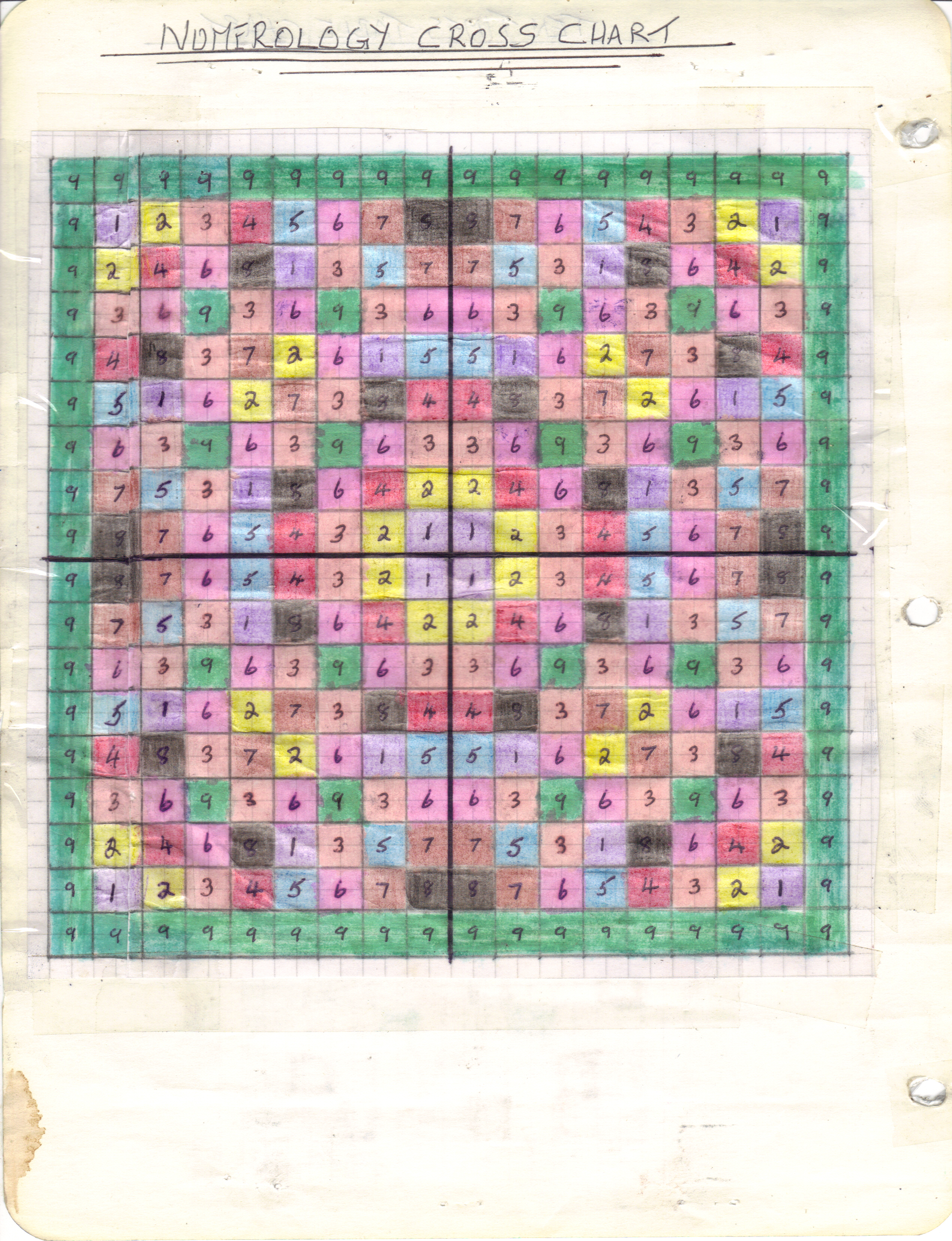 Root meanings and Numerology descriptions